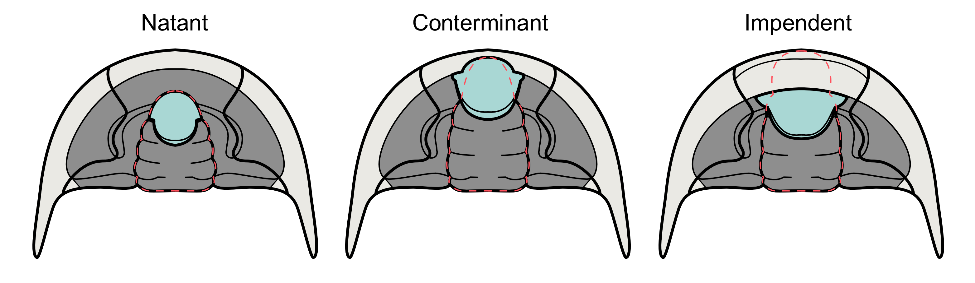 The different types of trilobites hypostome (ventral cephalic plate). A - Natant: Hypostome not attached to doublure. Aligned with front edge of glabella (shown in red broken lines) B - Conterminant: Hypostome attached to rostral plate of doublure. Aligned with front edge of glabella. C - Impendent - Hypostome attached to rostral plate but not aligned to glabella.